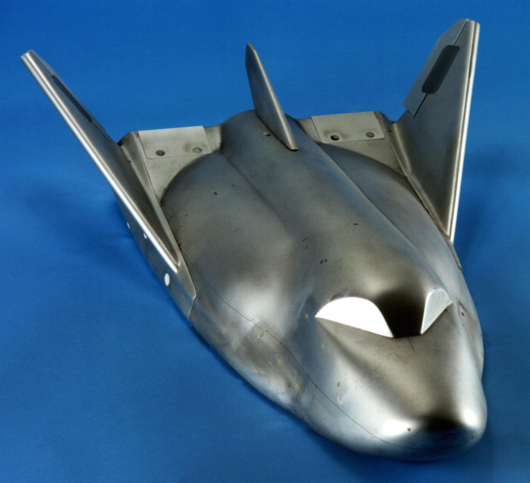 Scaled model of the Langley Personnel Launch System (PLS) Vehicle. Concept used to measure aerodynamic performance characteristics over a wide range of flow conditions and attitudes in several Langley wind tunnels.